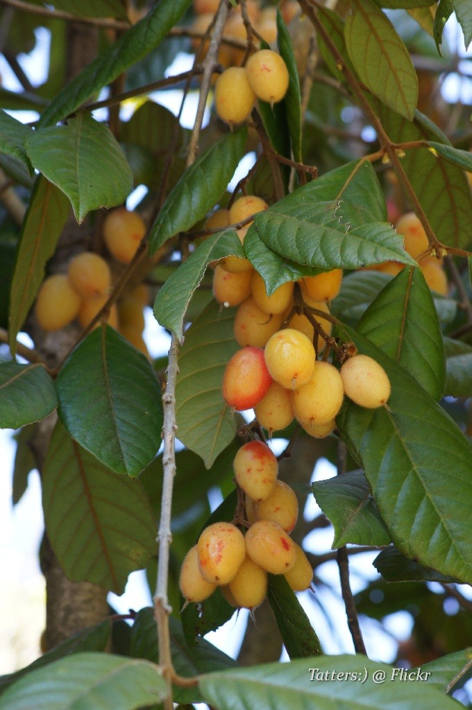 Aceratium ferrugineum (Rusty Carabeen) – fruiting. The fruit 3-4cm long, floccose ('hairy'), they become red and fall to the ground when ripe. The fruit is drupe, it has red juice sour taste, apparently edible ;) - similar to its relative Elaeocarpus Blue Quandong. Australian rainforest tree endemic to North-East Queensland. Family: Elaeocarpaceae Location: Roma Street Parkland, Brisbane. Date: 16 August 2011 By: Tatiana Gerus